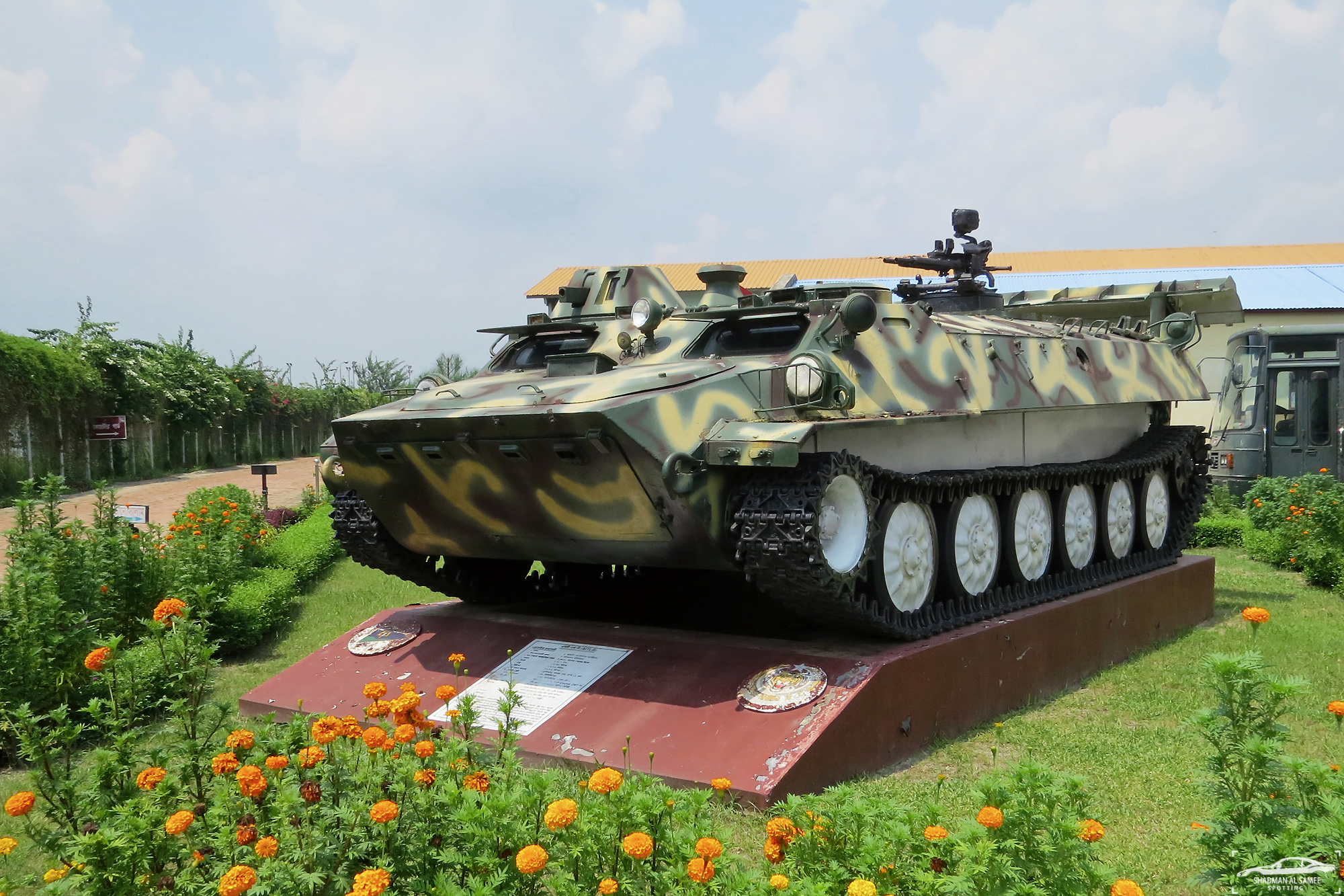 Dhaka 2017: Reportedly the MT-LBs were transferred to the Army from captured Iraqi lot after the 1st Gulf War.